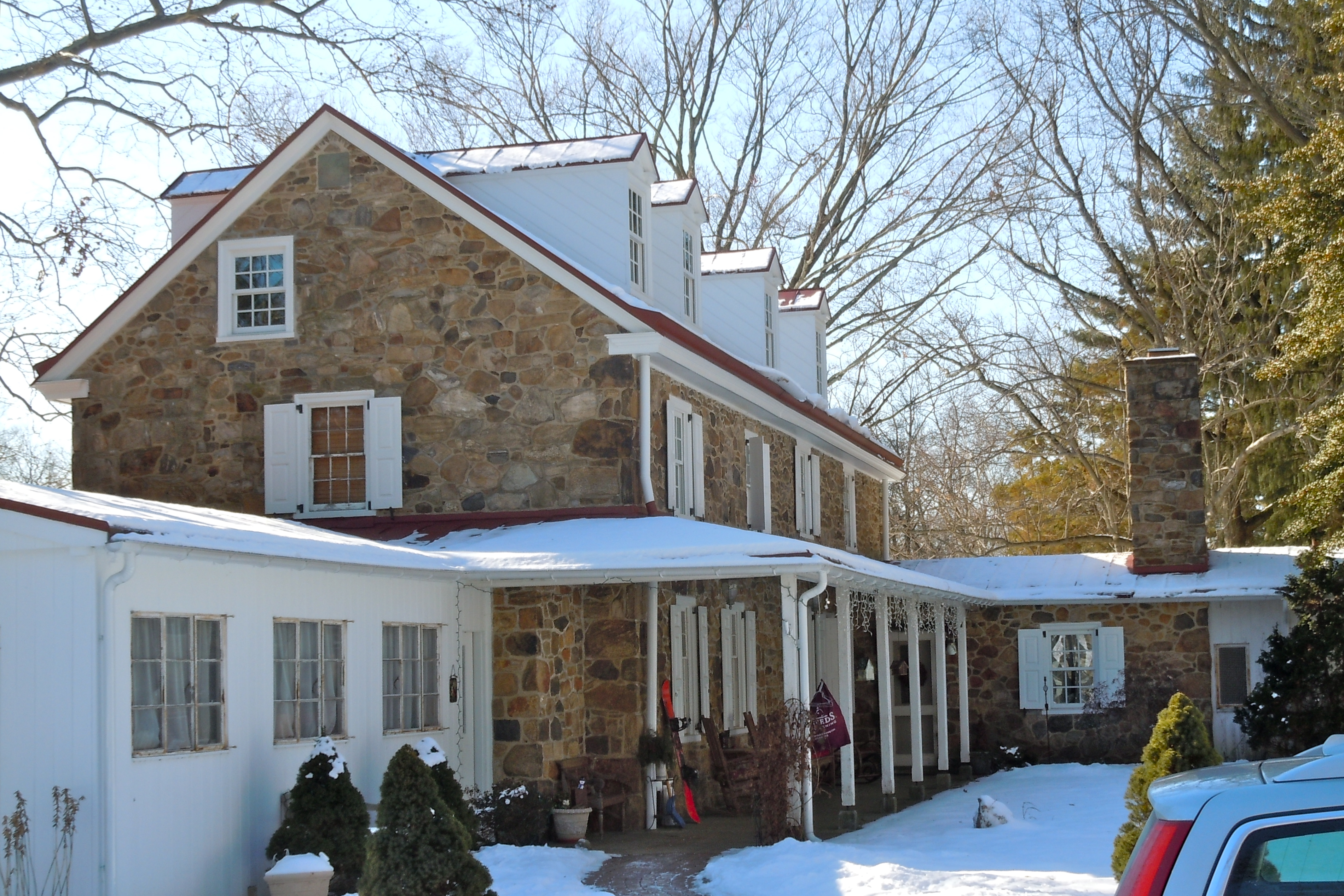 Goodwin Acres on the NRHP since June 27, 1980, at 600 Reservoir Road, near West Chester, Chester County, Pennsylvania